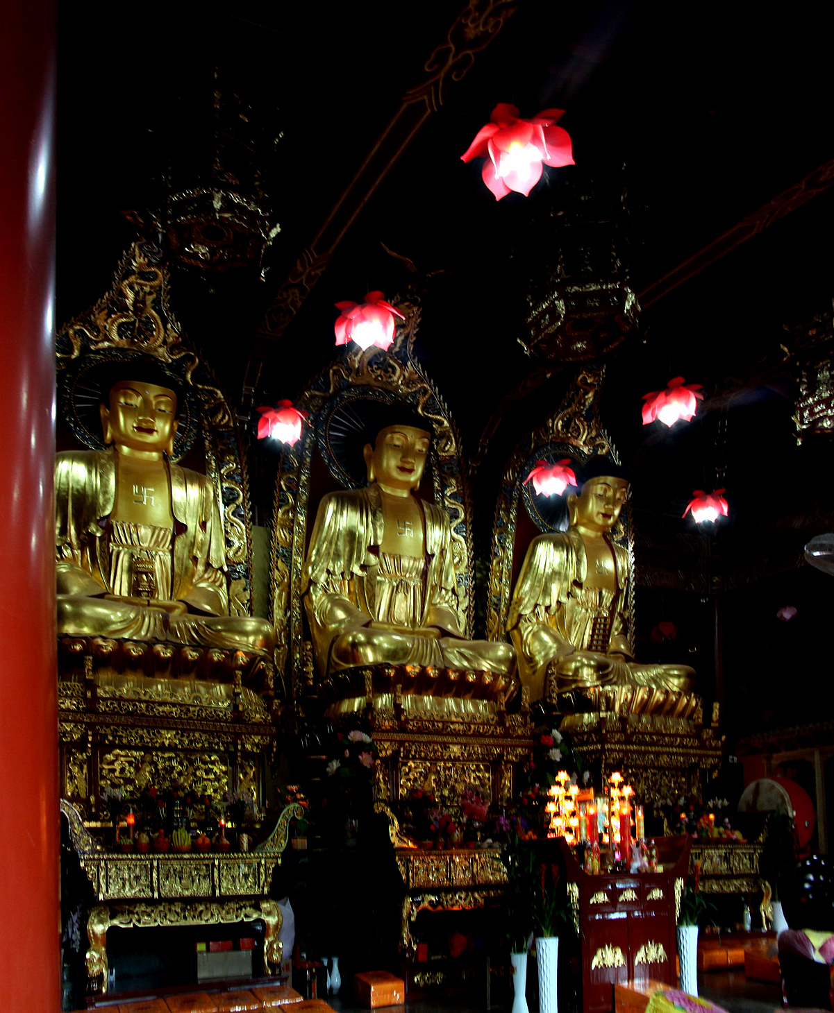 Amitabha Buddha (left), Shakyamuni Buddha (center), and the Medicine Buddha (right). Contrary to a previous description, these are not the "Three Sages of the West" (i.e. Amitabha Buddha and his attendant bodhisattvas). Donglin Temple, Mount Lu, Jiangxi province, China.